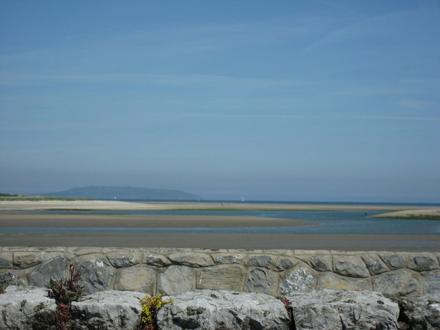 The View from Strand Road Baldoyle. Near Sutton